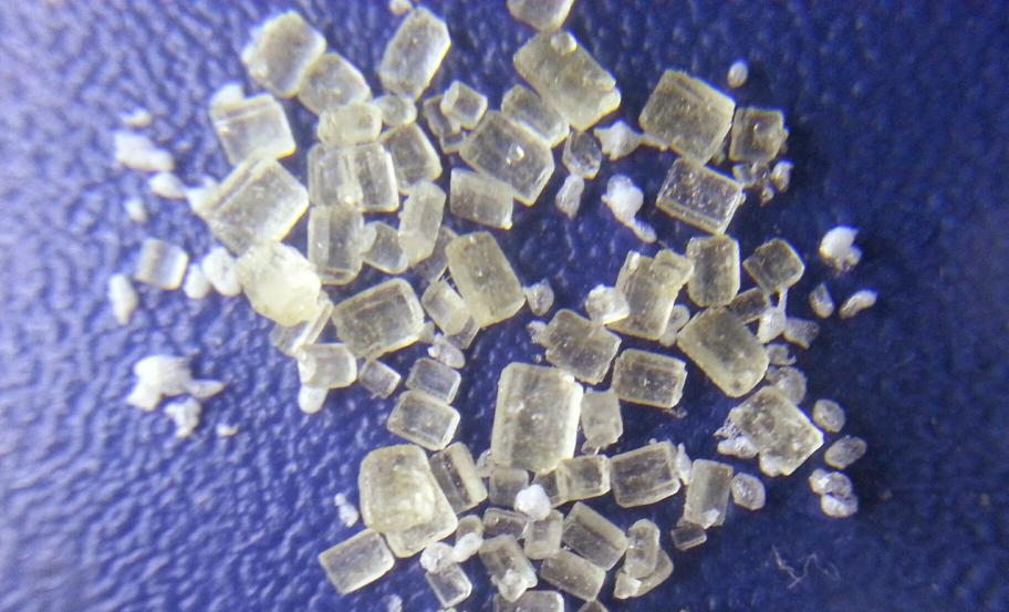 This is a macro view of both brown table Sugar (Sucrose) - the clearly visible crystals an aspartame based artificial sweetener - Tiny white balls side by side